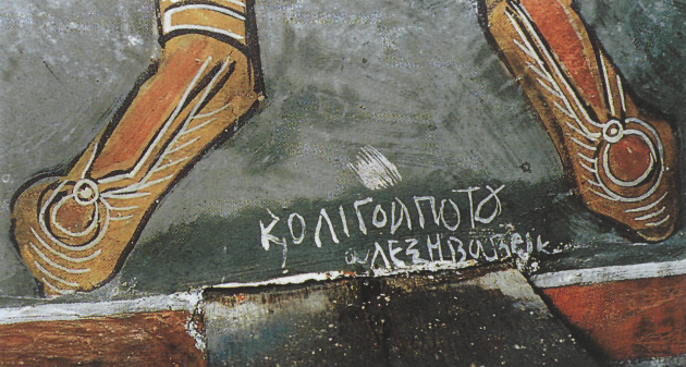 Megala Meteora